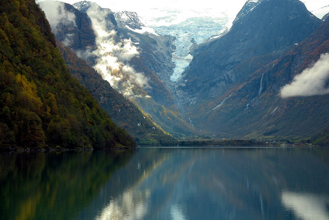 Seeing Jostedalsbreen glacier from across the valley.